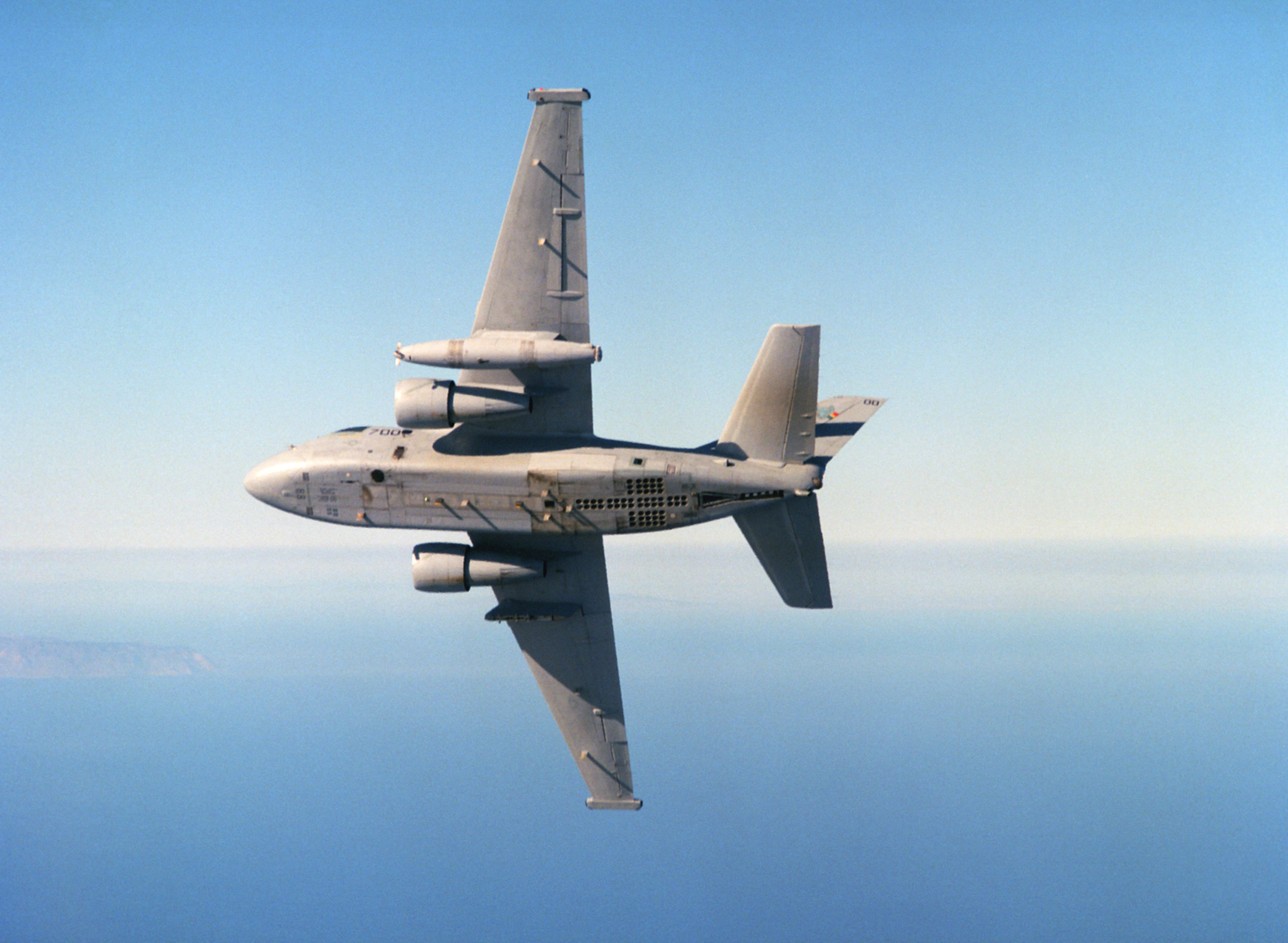 A U.S. Navy Lockheed S-3B Viking aircraft of Sea Control Squadron 35 (VS-35) "Blue Wolves" in flight on 23 January 1995. VS-35 was assigned to Carrier Air Wing 14 (CVW-14) aboard the aircraft carrier USS Carl Vinson (CVN-70). Note the Douglas D-704 refueling pod under the left wing. Also clearly visible are the openings in the fuselage for dropping sonobuoys and the ESM sensors on the wingtips.